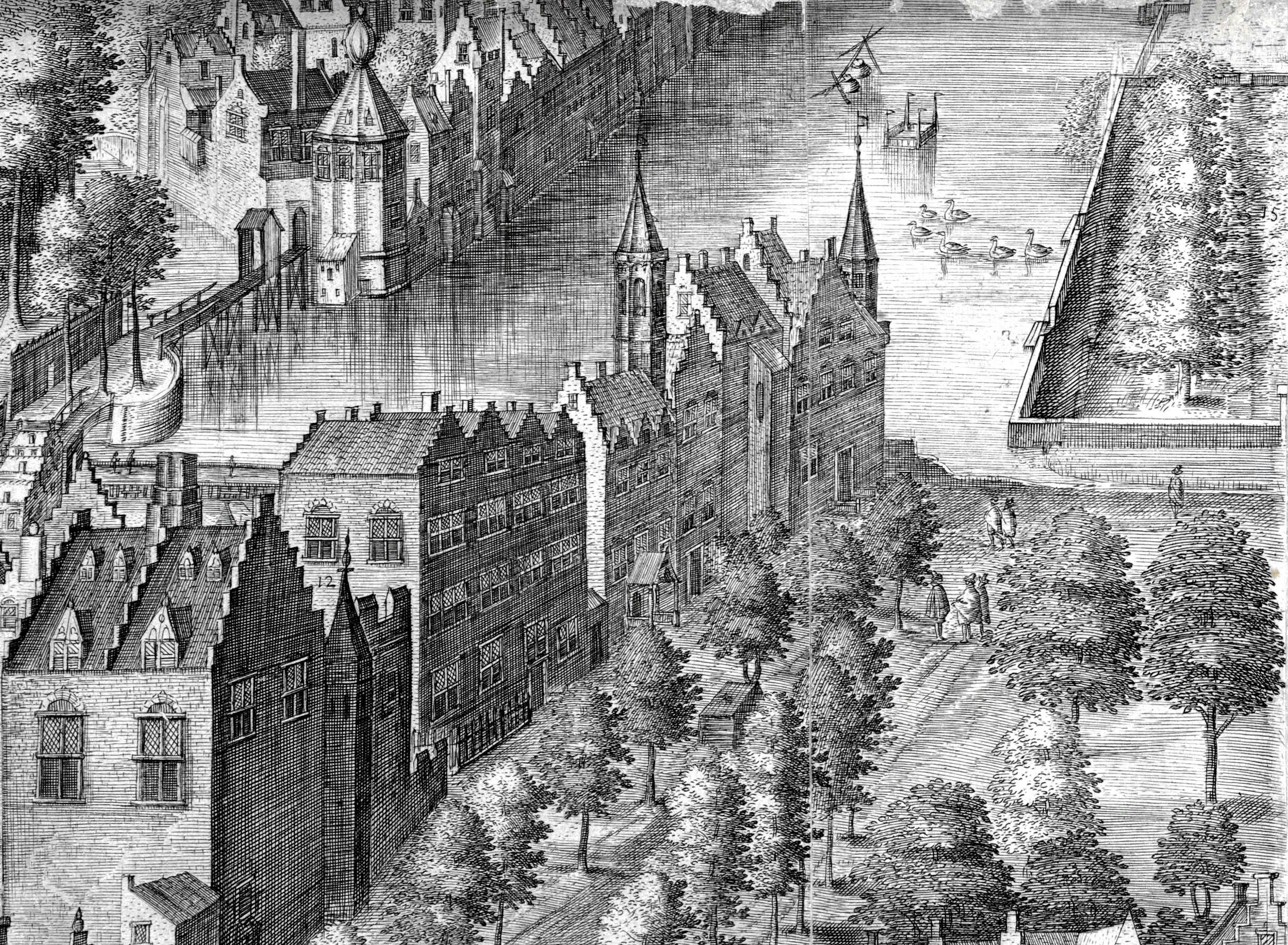 Birdseye view of the Tournooiveld street (in the front) in The Hague, the Netherlands, with (left top) the Inner Courts.